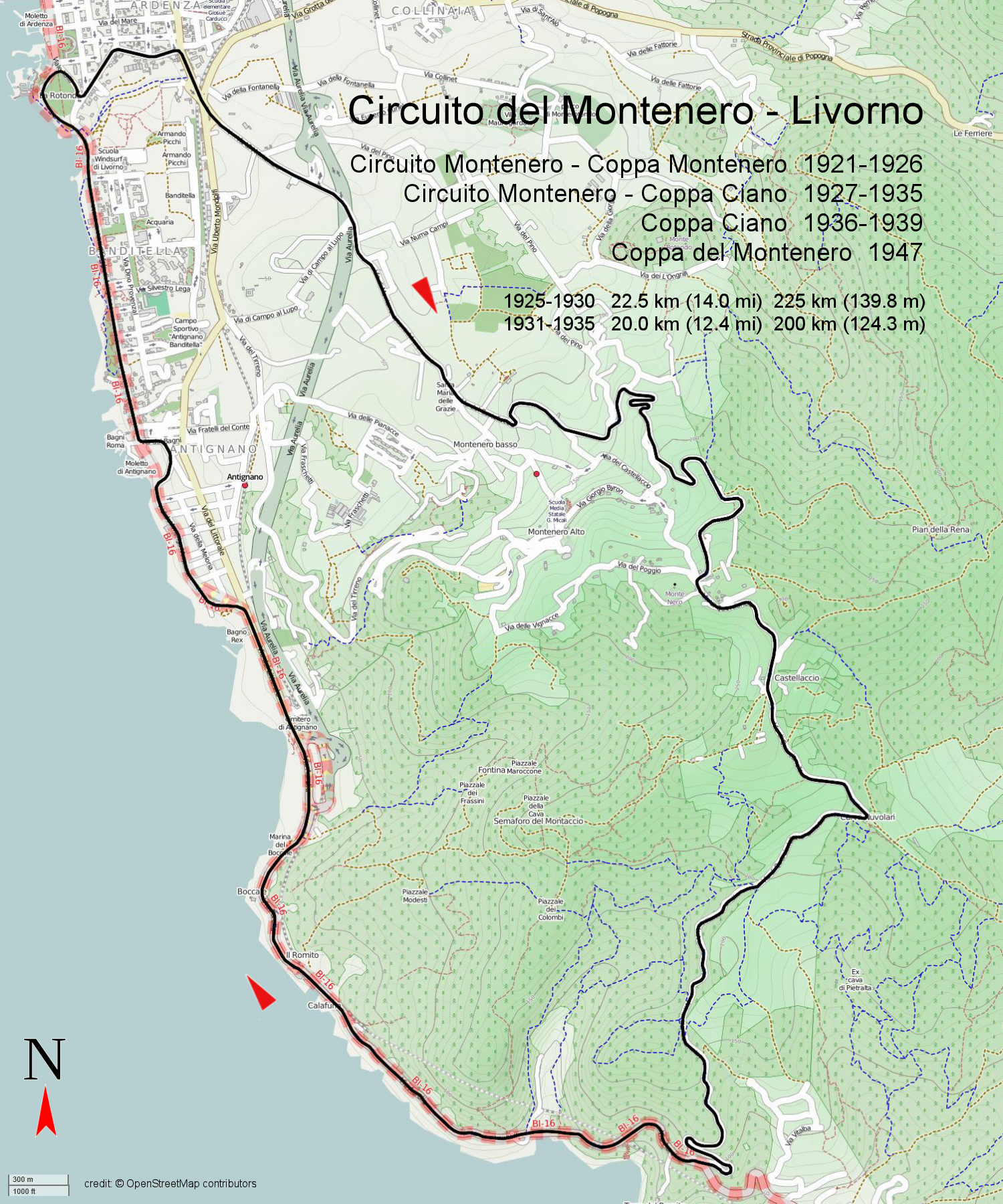 Circuito Montenero - Coppa Ciano 1925-1935